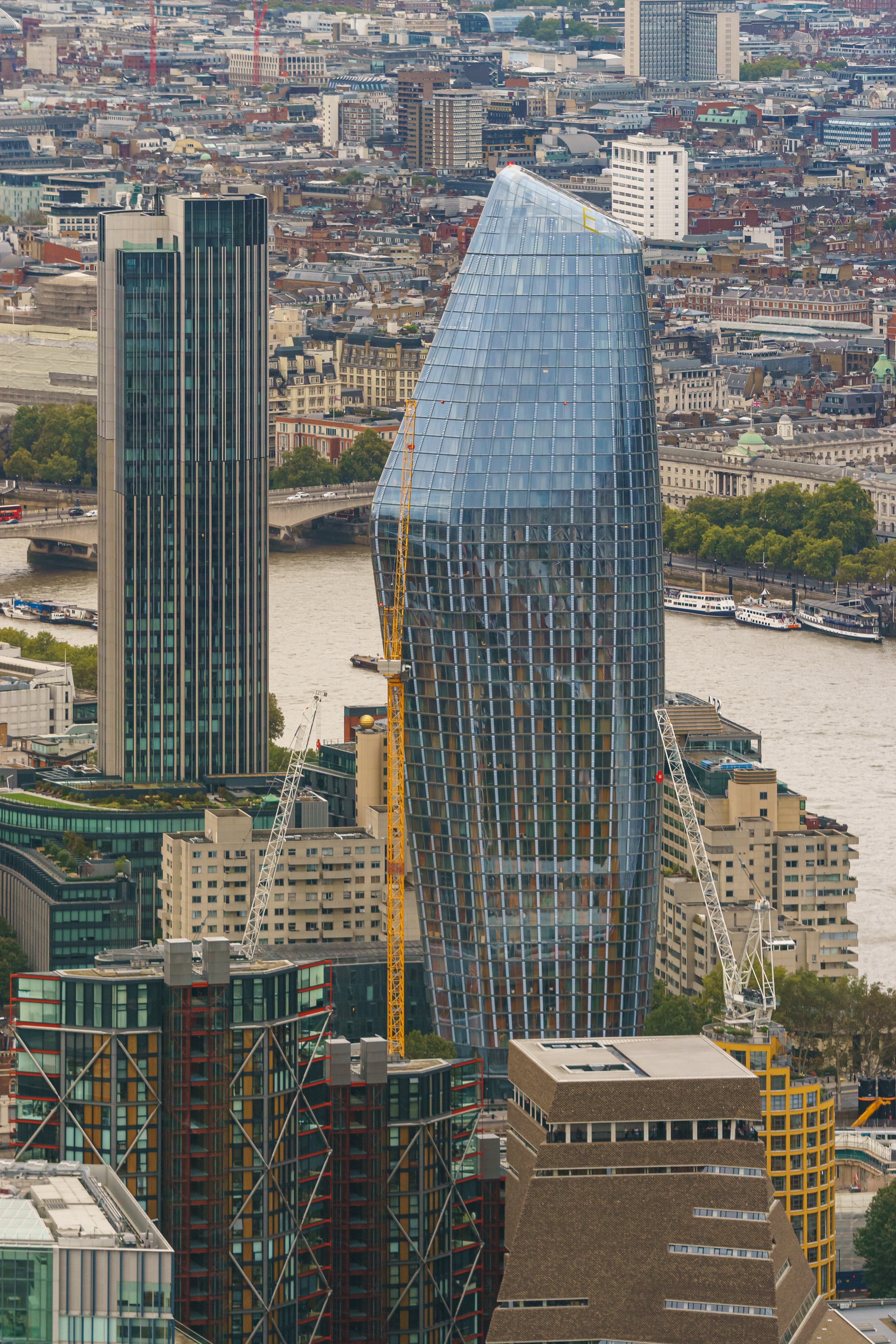 One Blackfriars viewed from The Shard, London Bridge